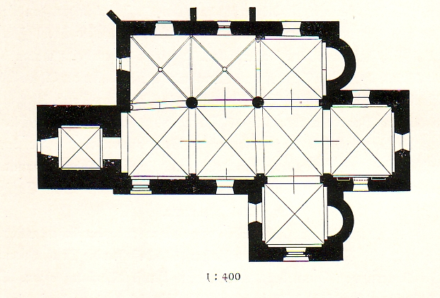 St. Laurentius church in Bünde, District of Herford, North Rhine-Westphalia, Germany.